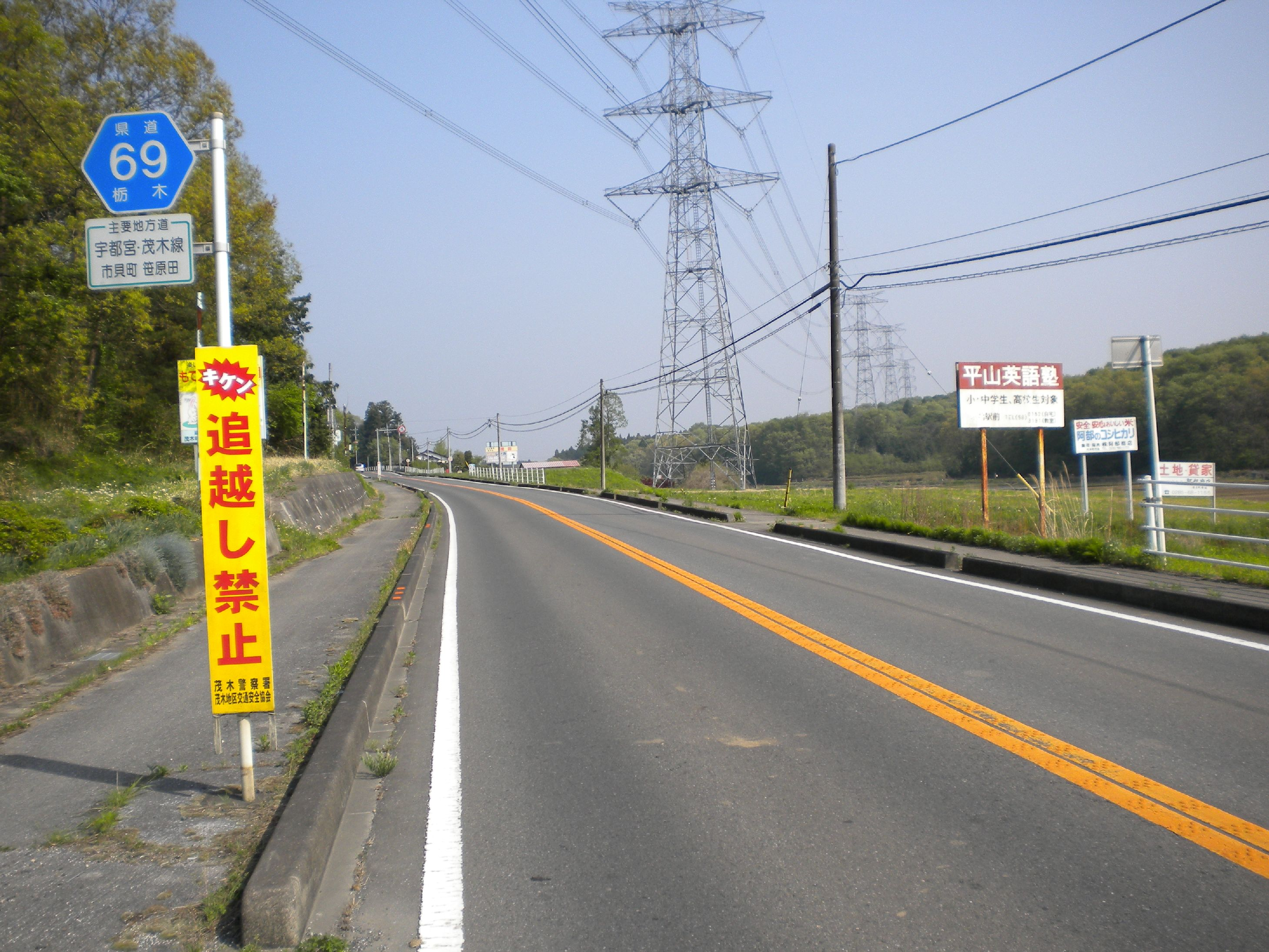 The Tochigi Prefectural Road Route 69 in Ichikai Town